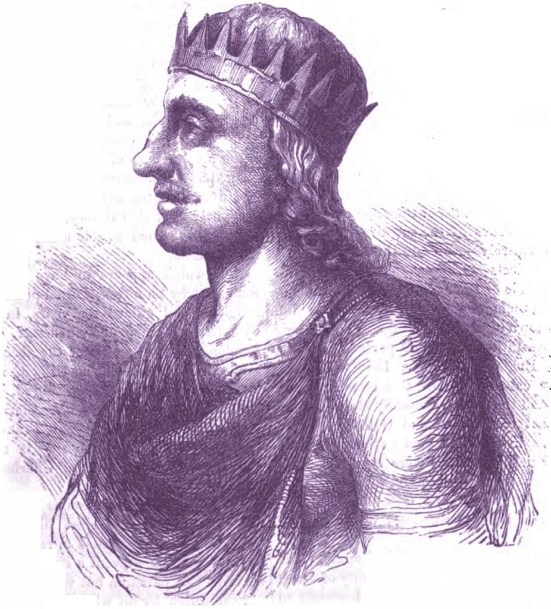 Egbert of Wessex as represented in a 19th century book.